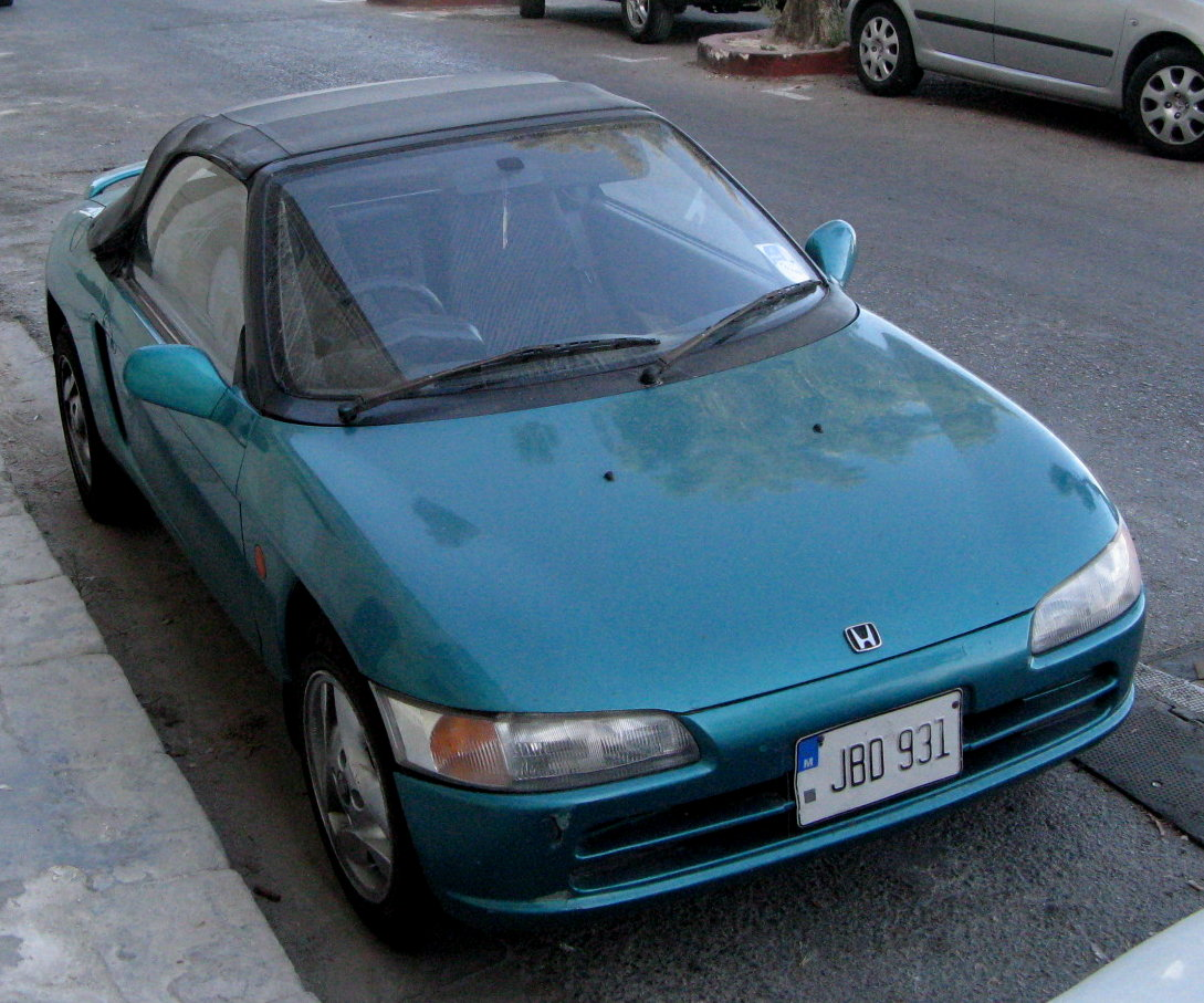 Honda Beat in Valletta, Malta